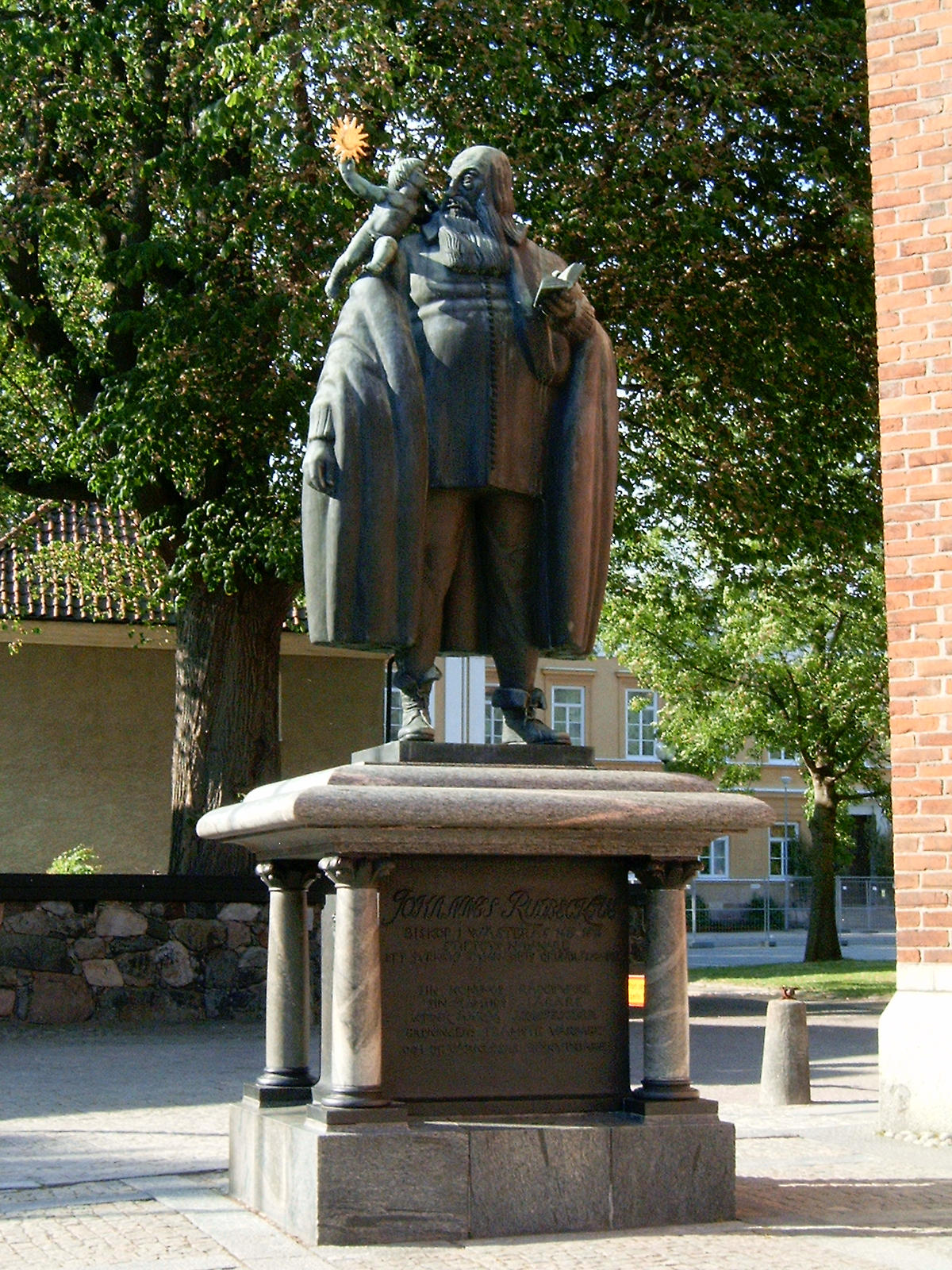 Statue of Johannes Rudbeckius, founder of the first gymnasium (in Sweden: upper secondary school/senior high school) is Sweden.